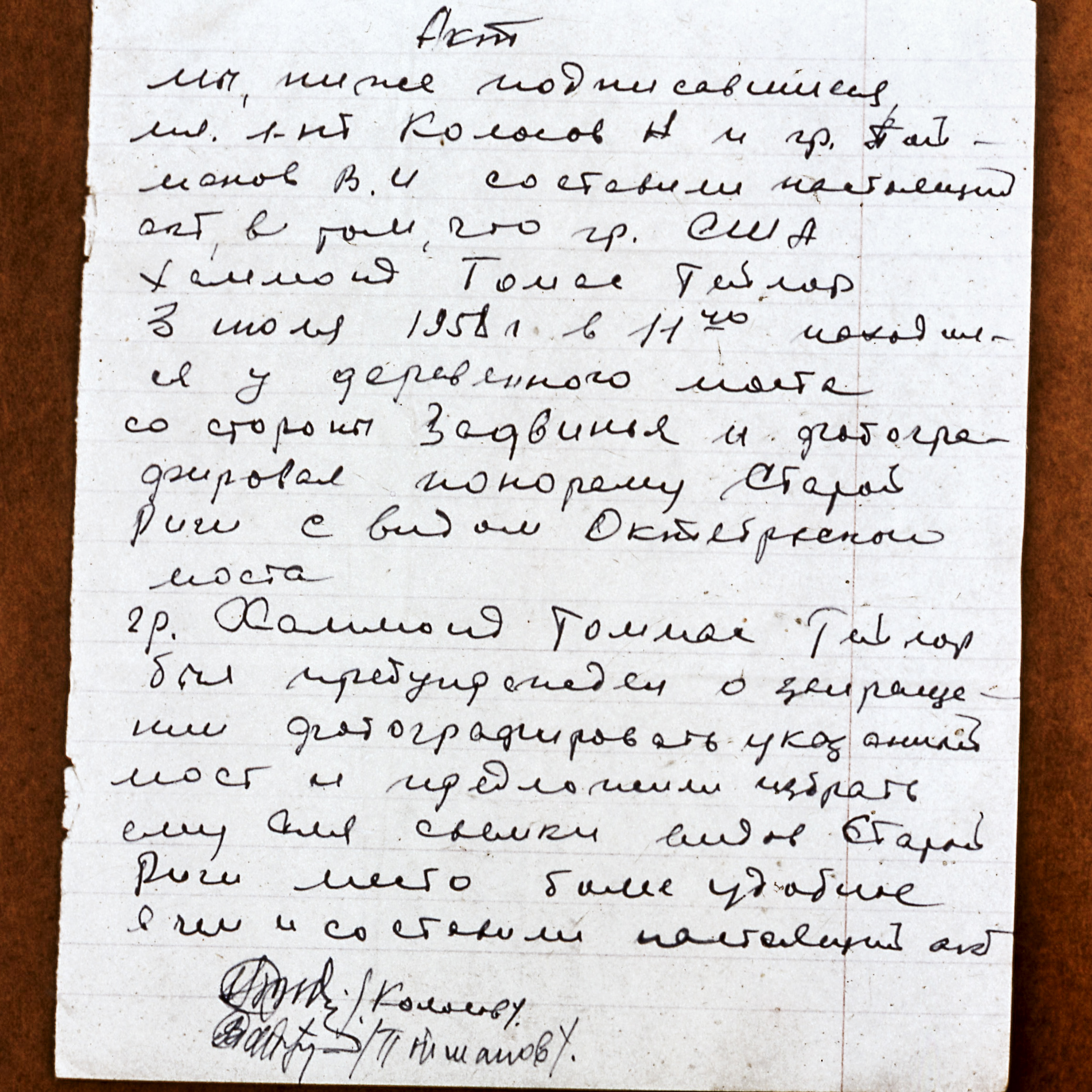 Official document about professor Thomas Hammond visit to Riga, USSR.